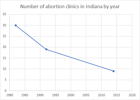 Number of abortion clinics in Indiana by year. Created using data linked on .